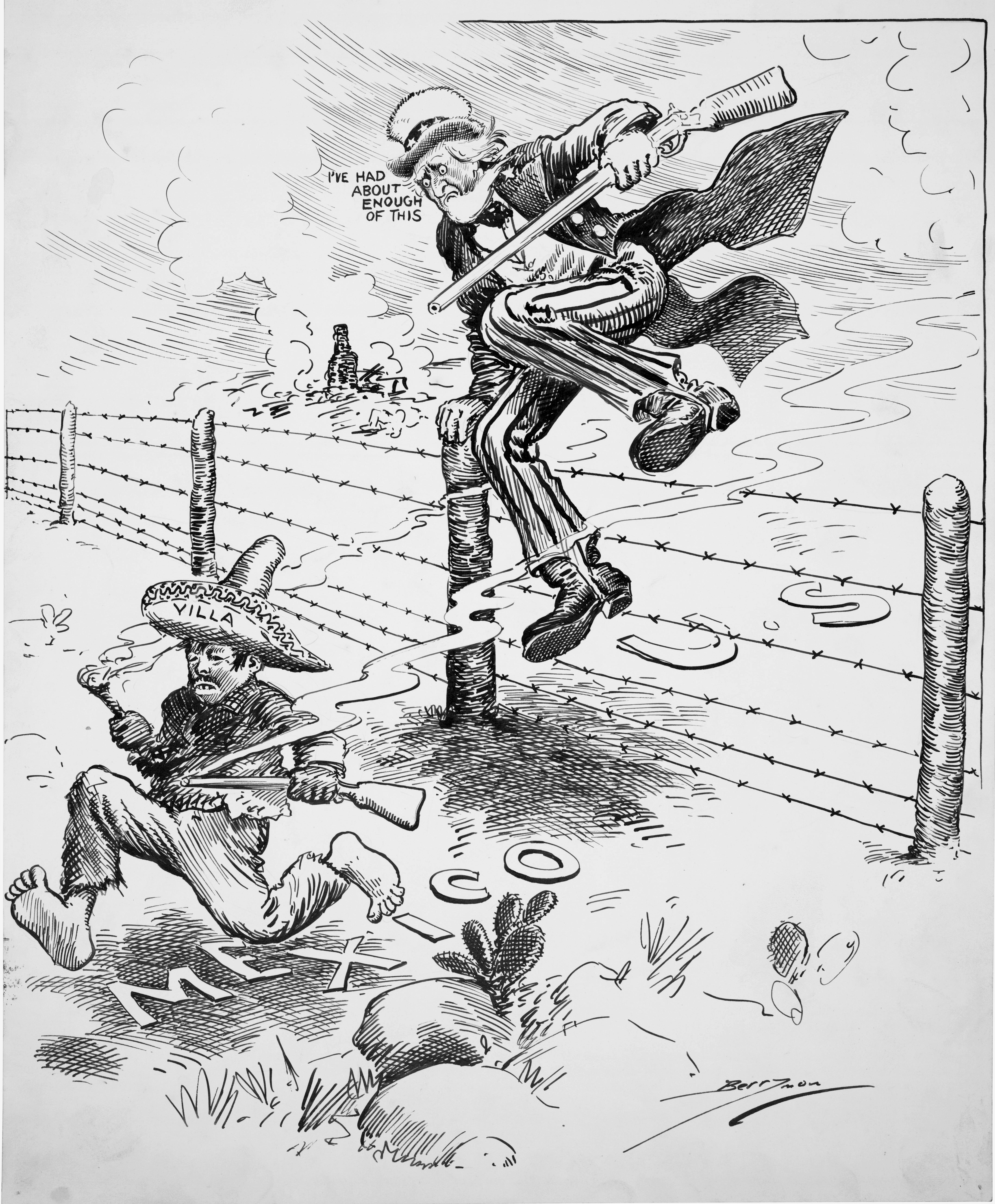 "I've Had About Enough of This". Uncle Sam leaps across the border fence with Mexico to chase (Pancho) Villa.